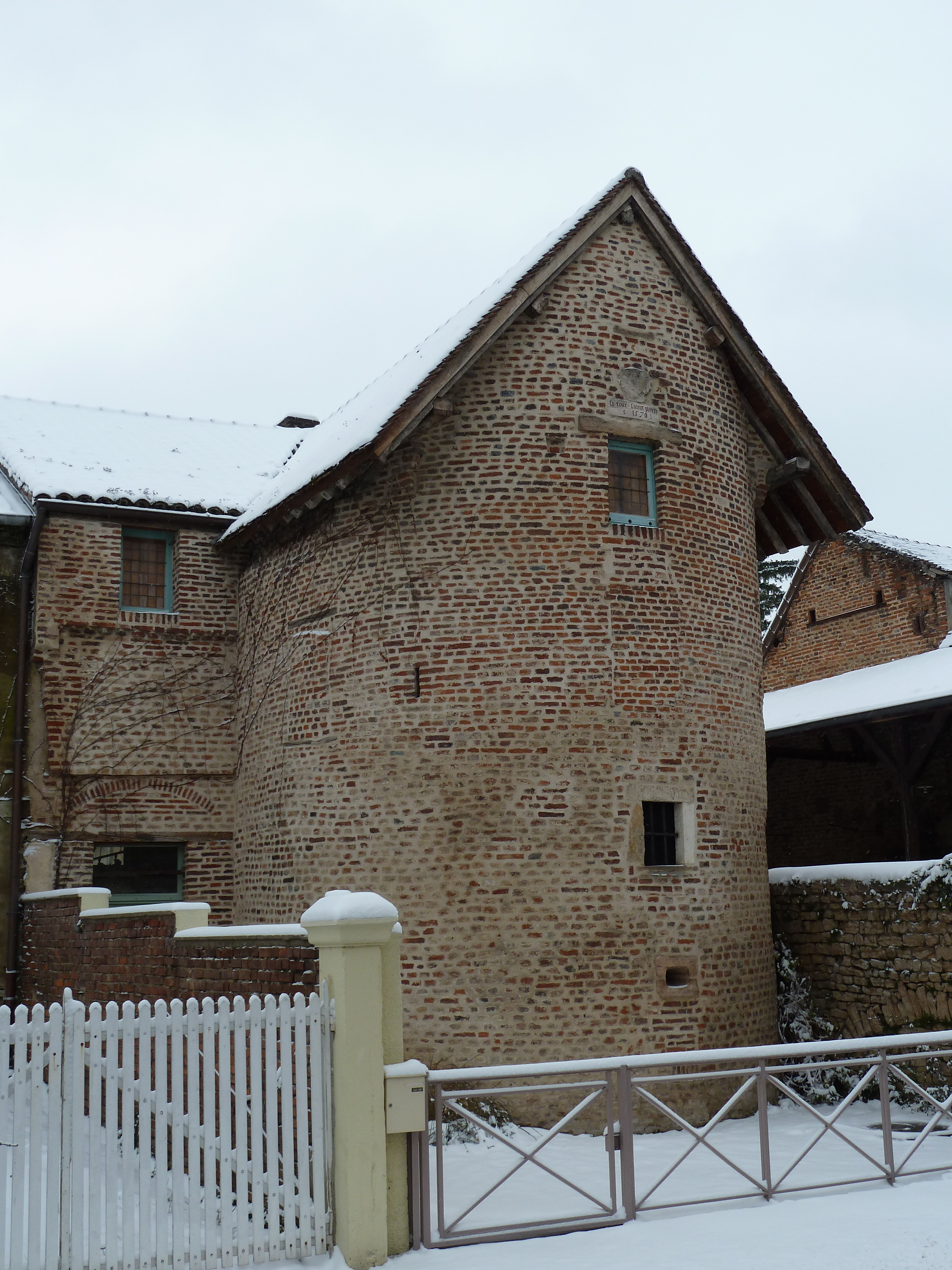 St-Pierre Tower in Louhans (France, Burgundy)